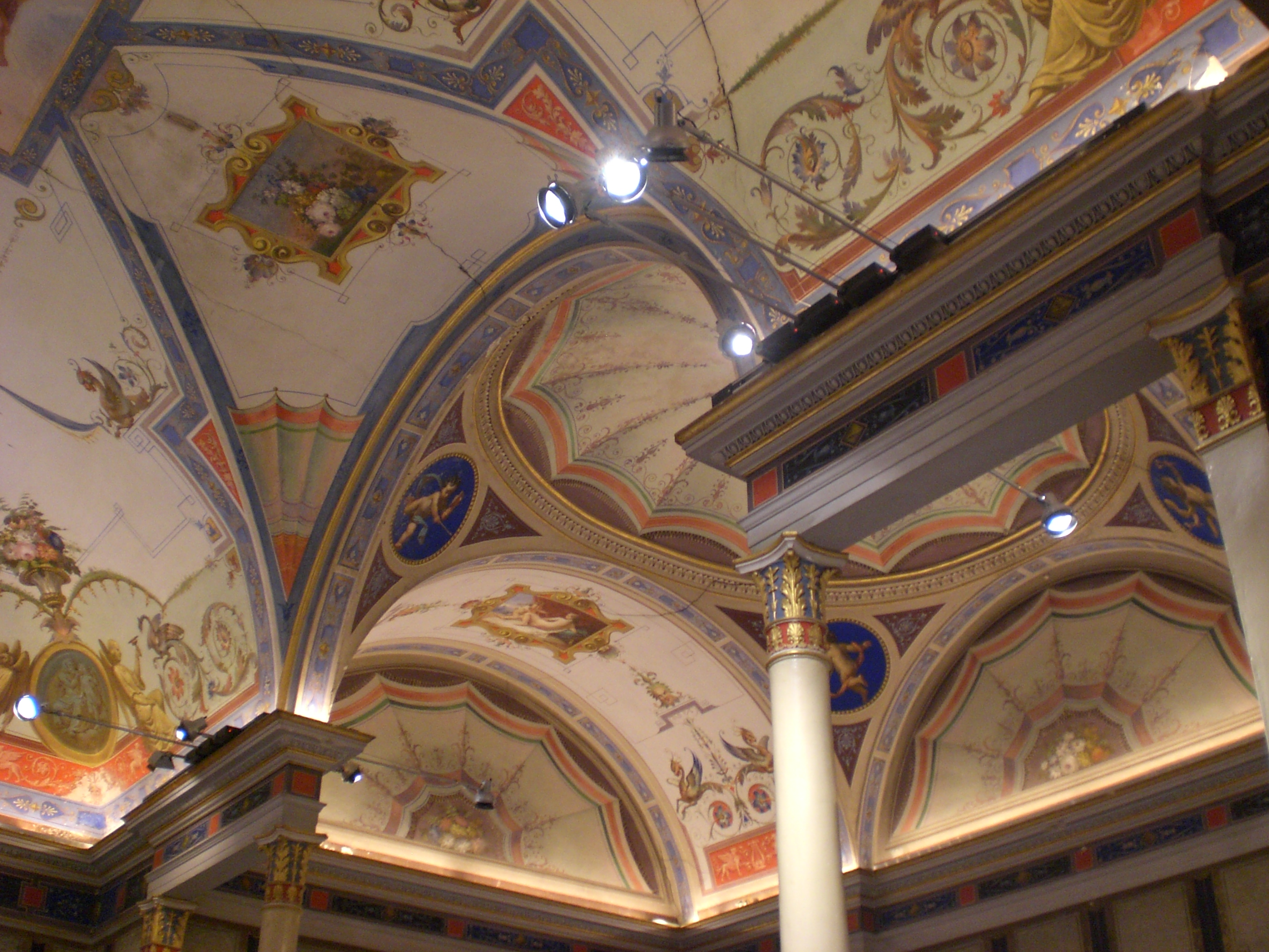 Jesi, Pianetti Palace, Alcova Room, XIX Century